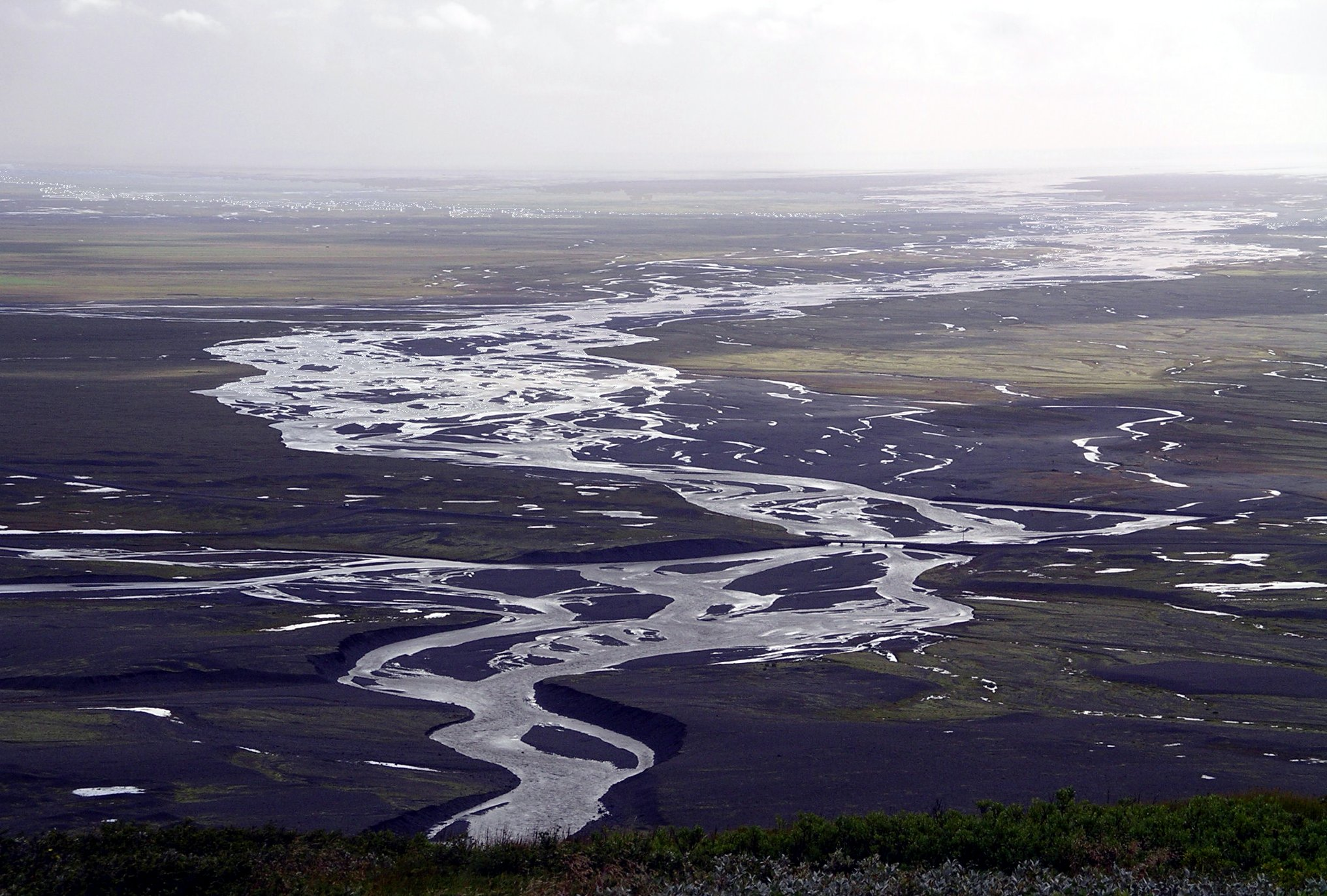 Skeidarásandur seen from Skaftafell (Iceland)